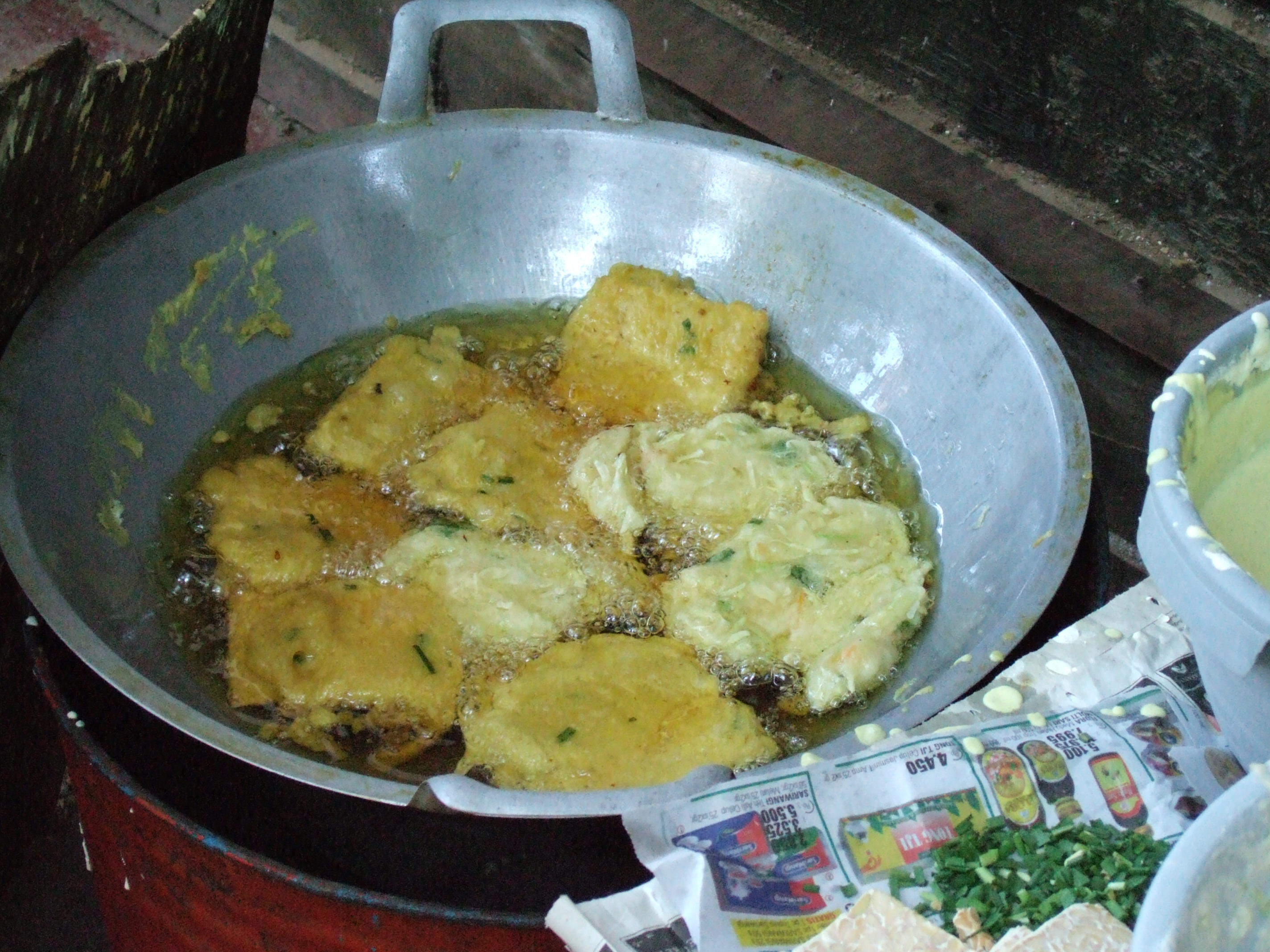 Tempe mendoan, batter coated fried tempeh. Picture taken in Cirebon, West Java, Indonesia. インドネシアのテンペ・メンドアン、小麦粉の衣で揚げる。